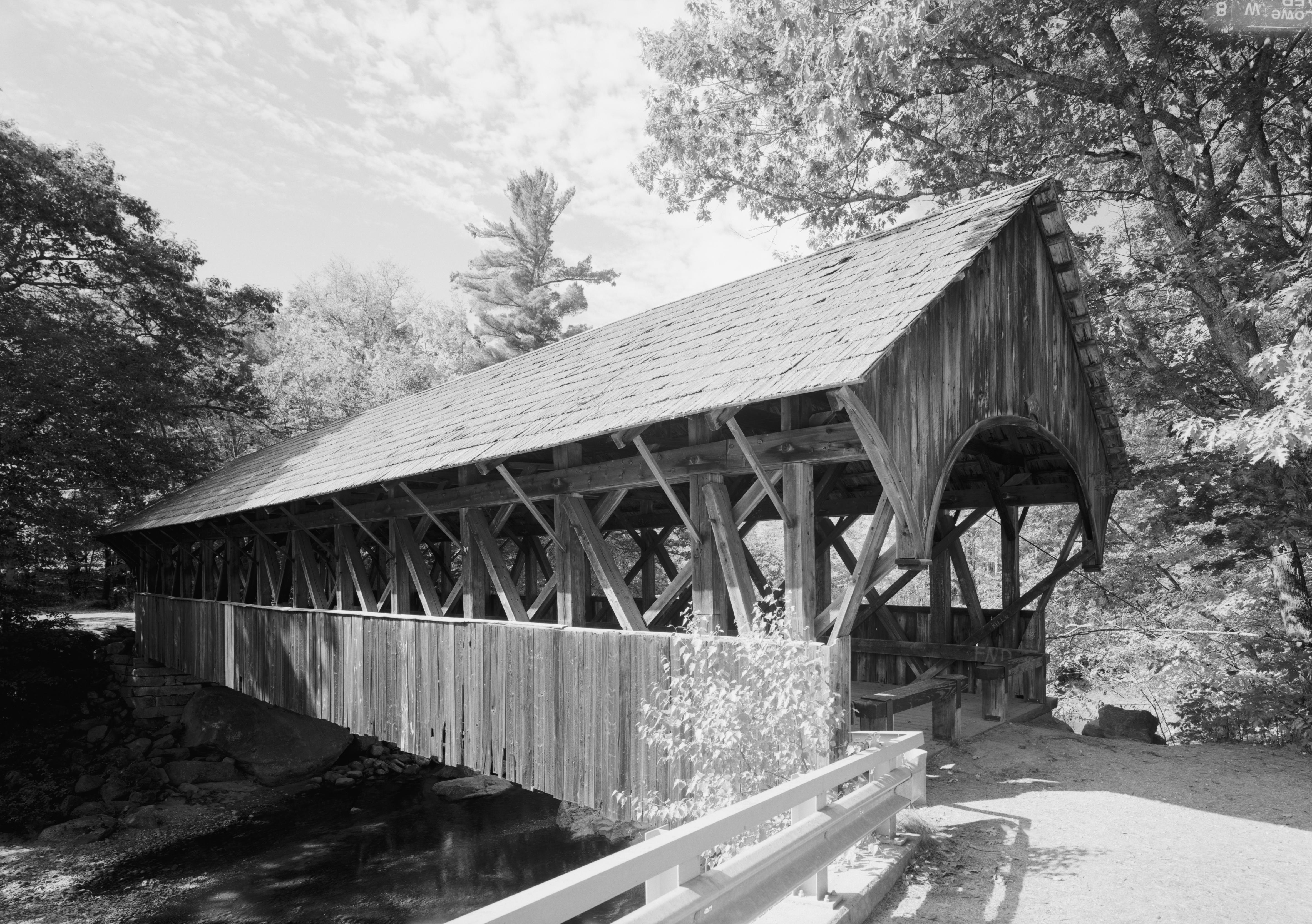 Sunday River Bridge, Spanning Sunday River, Newry vicinity (Oxford County, Maine)